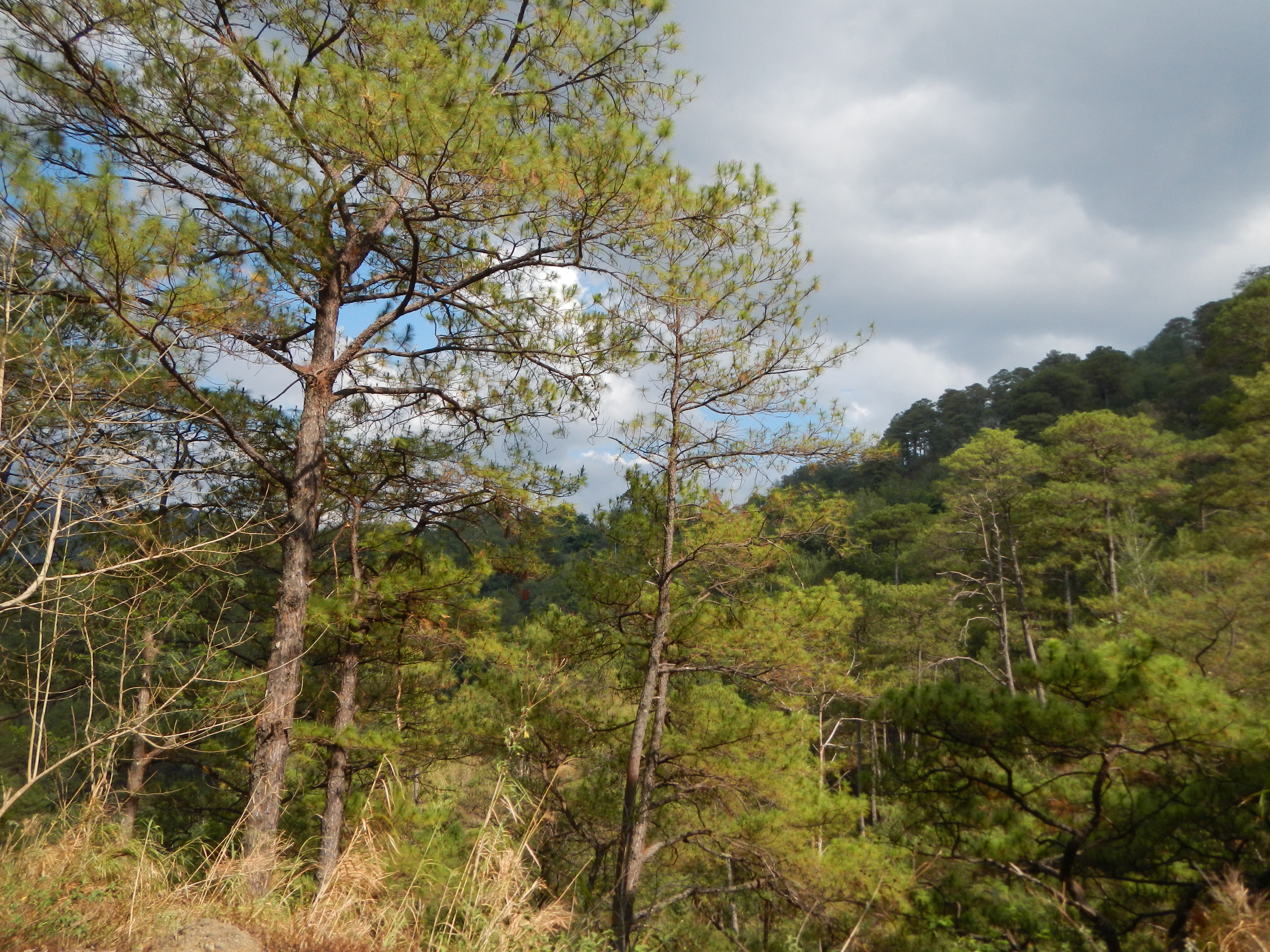 Bokod, Benguet, Benguet-Baguio Ciy road scenery gateway to Aritao and to Bukod Central, Bokod, Benguet] Benguet, Philippines, scenery, landscape.